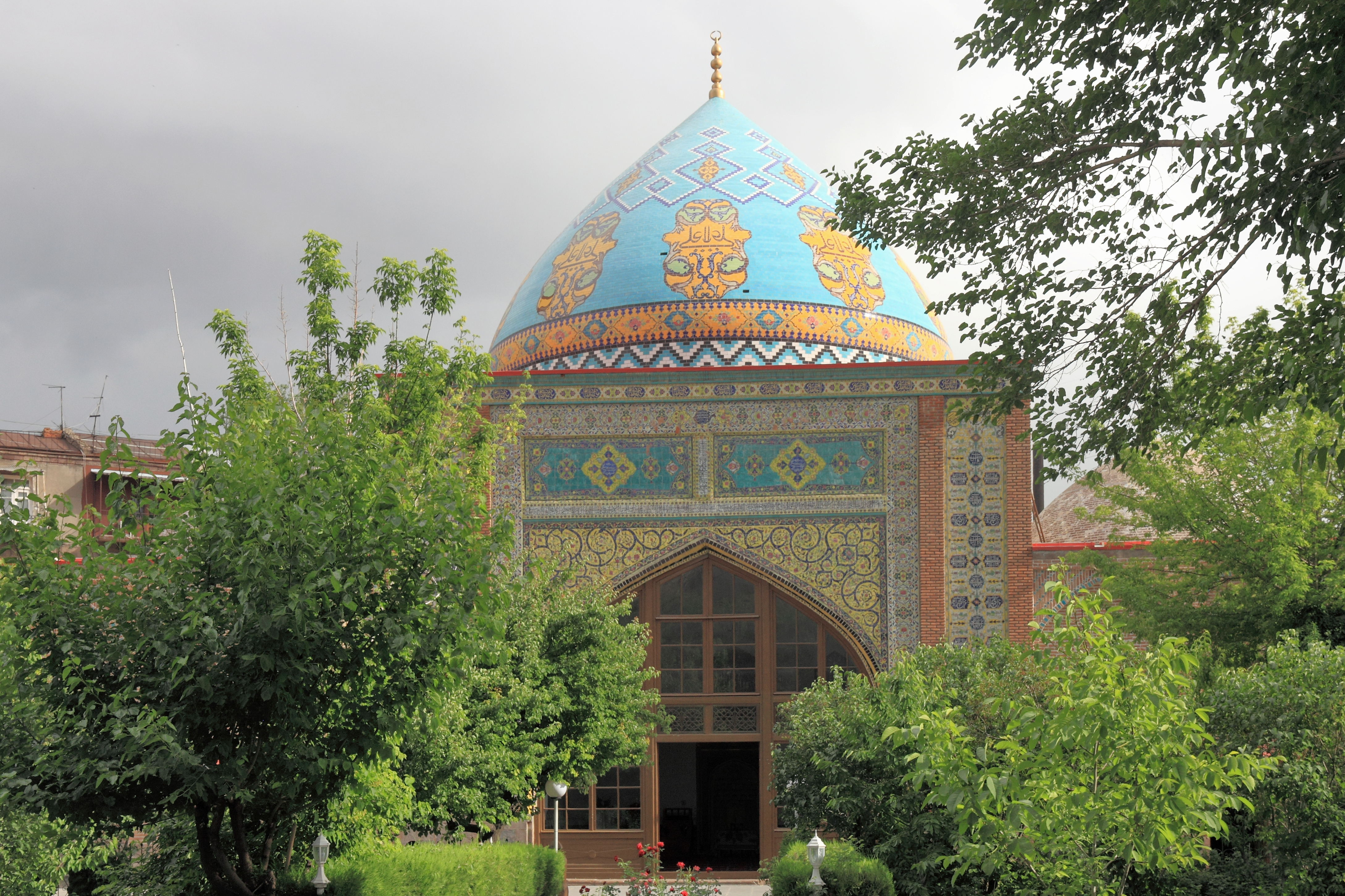 Blue Mosque. Yerevan, Armenia.